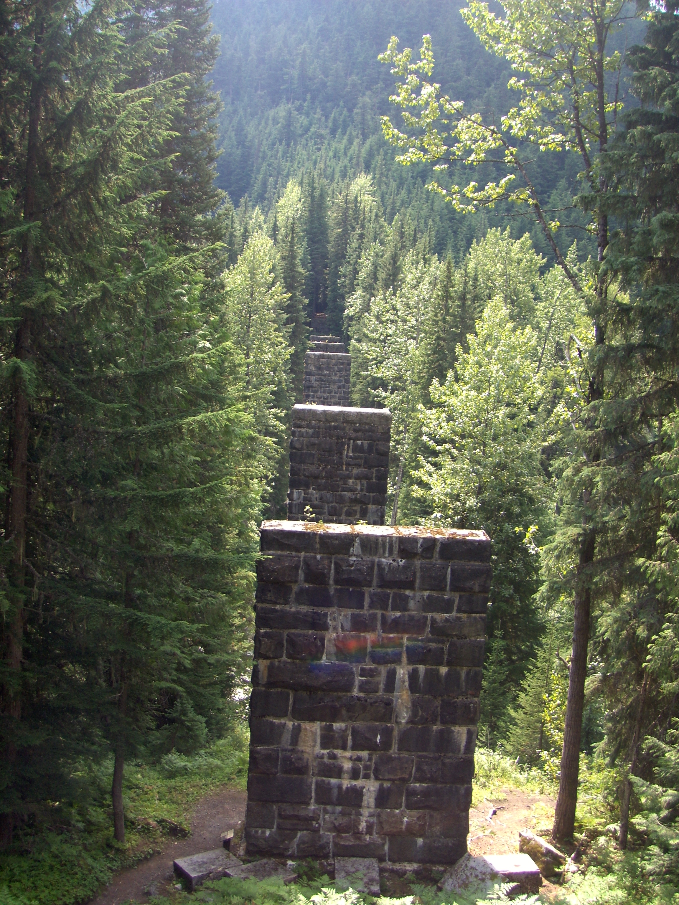 Glacier National Park